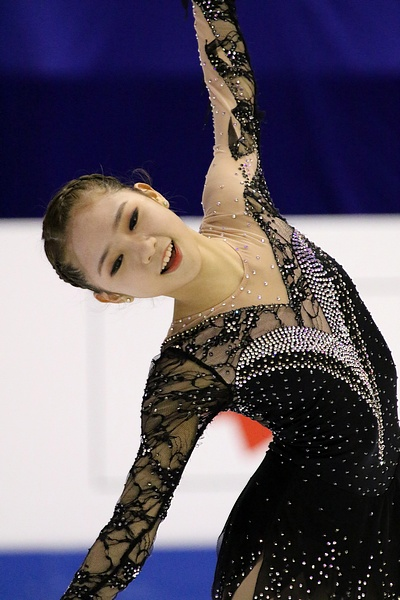 South Korean figure skater Choi Da-bin at the 2016 Four Continents Figure Skating Championships.